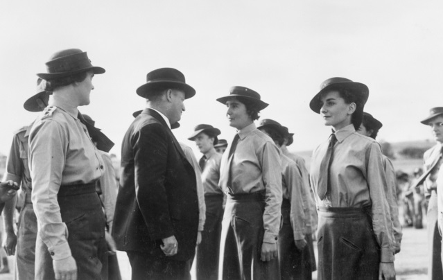 AWM Caption: Northam, West Australia. 1943-04-20. The Minister for the Australian Army, the Honourable F.M. Forde, inspecting personnel of the Australian Women's Army Service at the Western Training Centre. Lieutenant I.C. Levitzke is on the left of the photograph and the others, from the left, are Private S. Stockdale, Corporal T. Vernon, Gunner J.W. Dreyer and E. Hill.